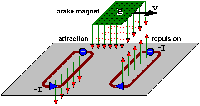 Braking effect of the magnetic fields created by eddy currents in a metal plate by a moving brake magnet